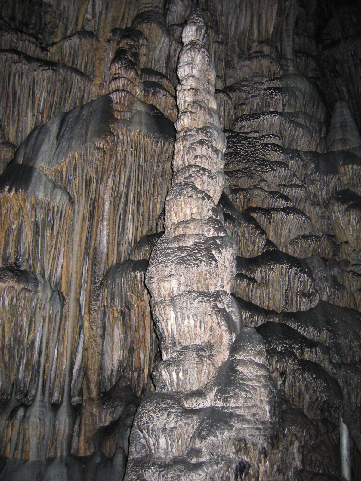 Detail of the Zeus cavern (cavern of Psychro, Ida mountains) on Crete